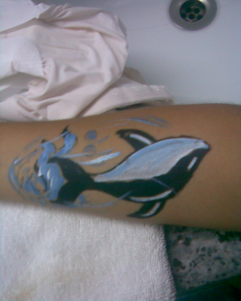 A design depicting an orca whale painted on a female's arm.